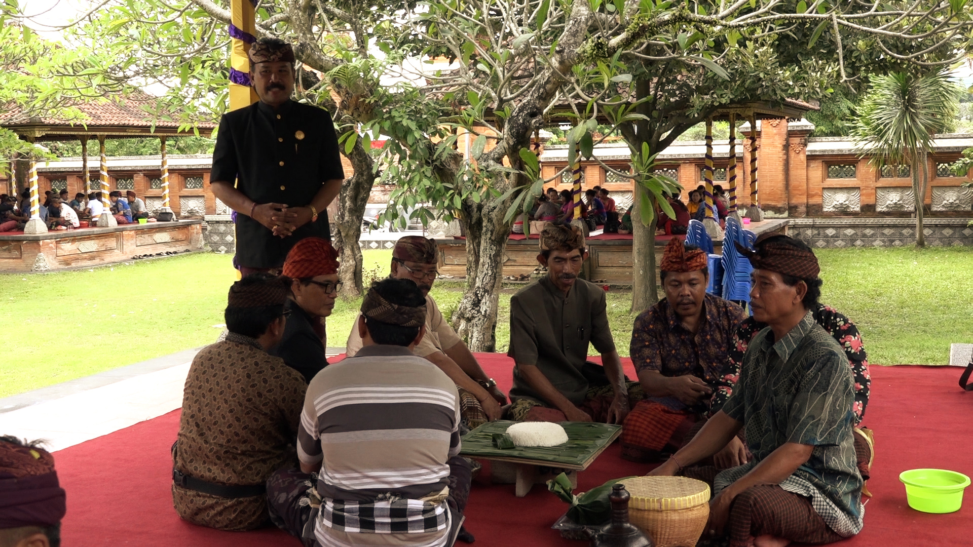 The tradition of eating together from Karangasem Regency